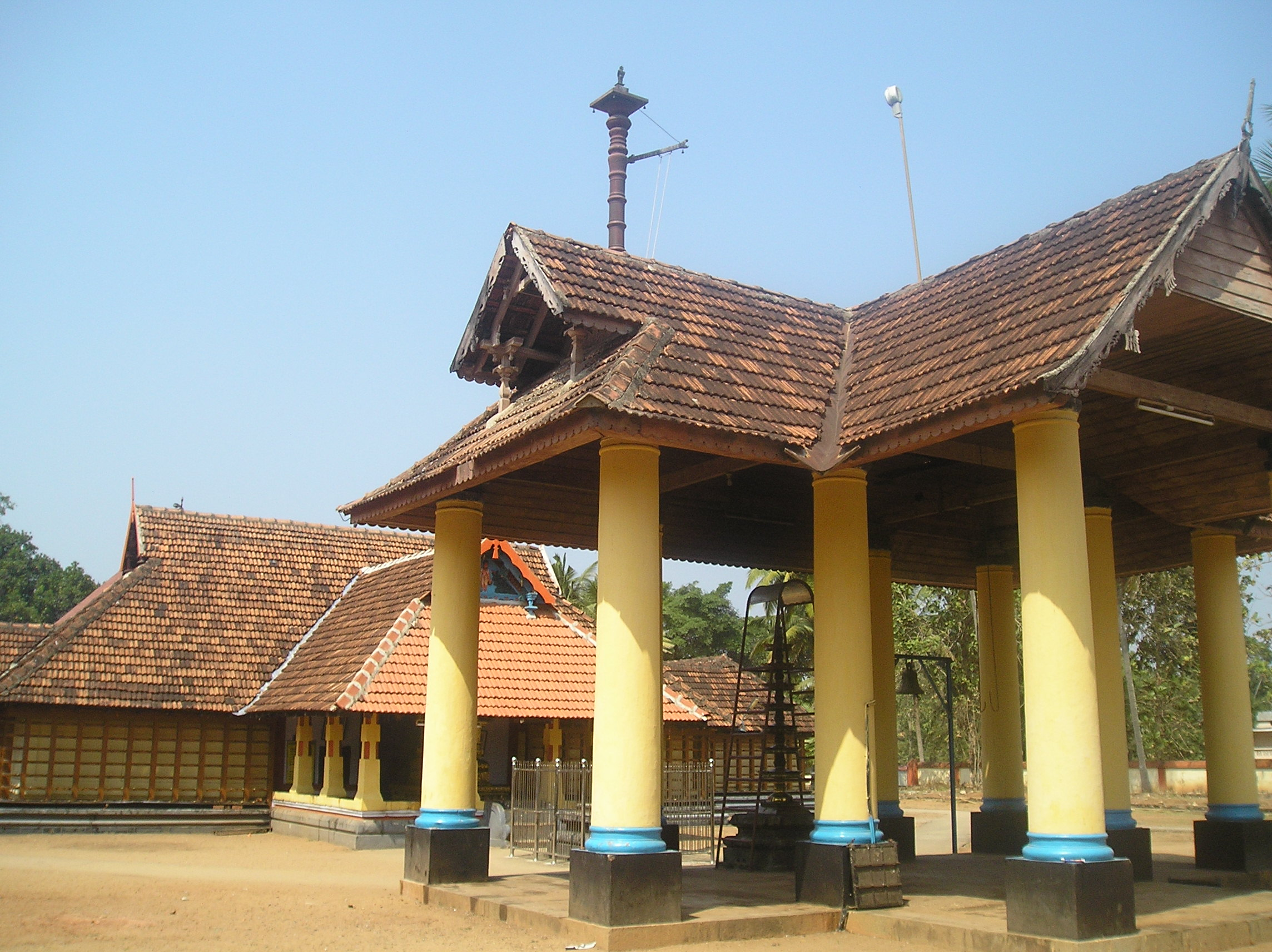 Divyadesam